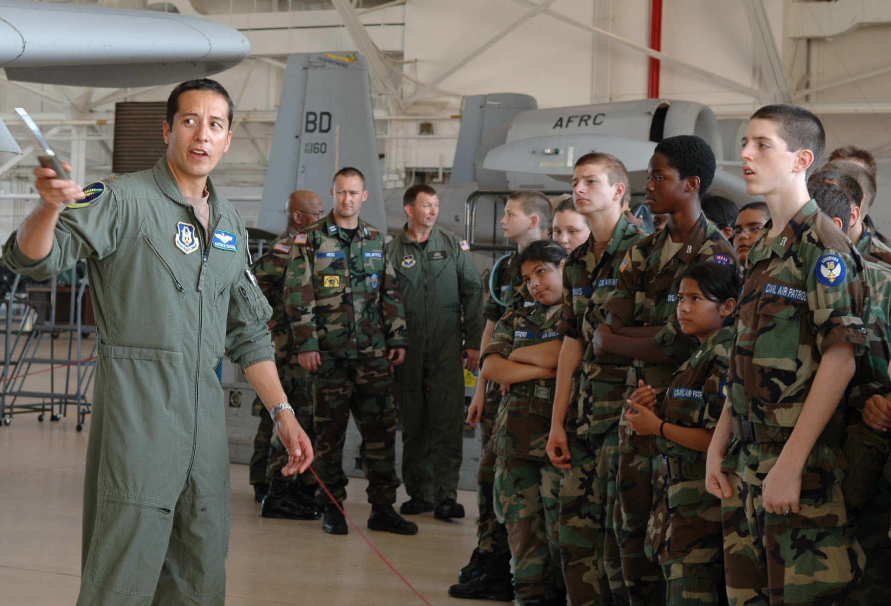 Major Aristotle Rabanal, 47th Fighter Squadron Scheduler shows the A-10 aircraft to about 80 cadets from Louisiana and Texas during the 2009 Civil Air Patrol Encampment at Barksdale AFB, La, June 18 – 28. (Photo by Mrs. Betty Stephens/917th Public Affairs Office)